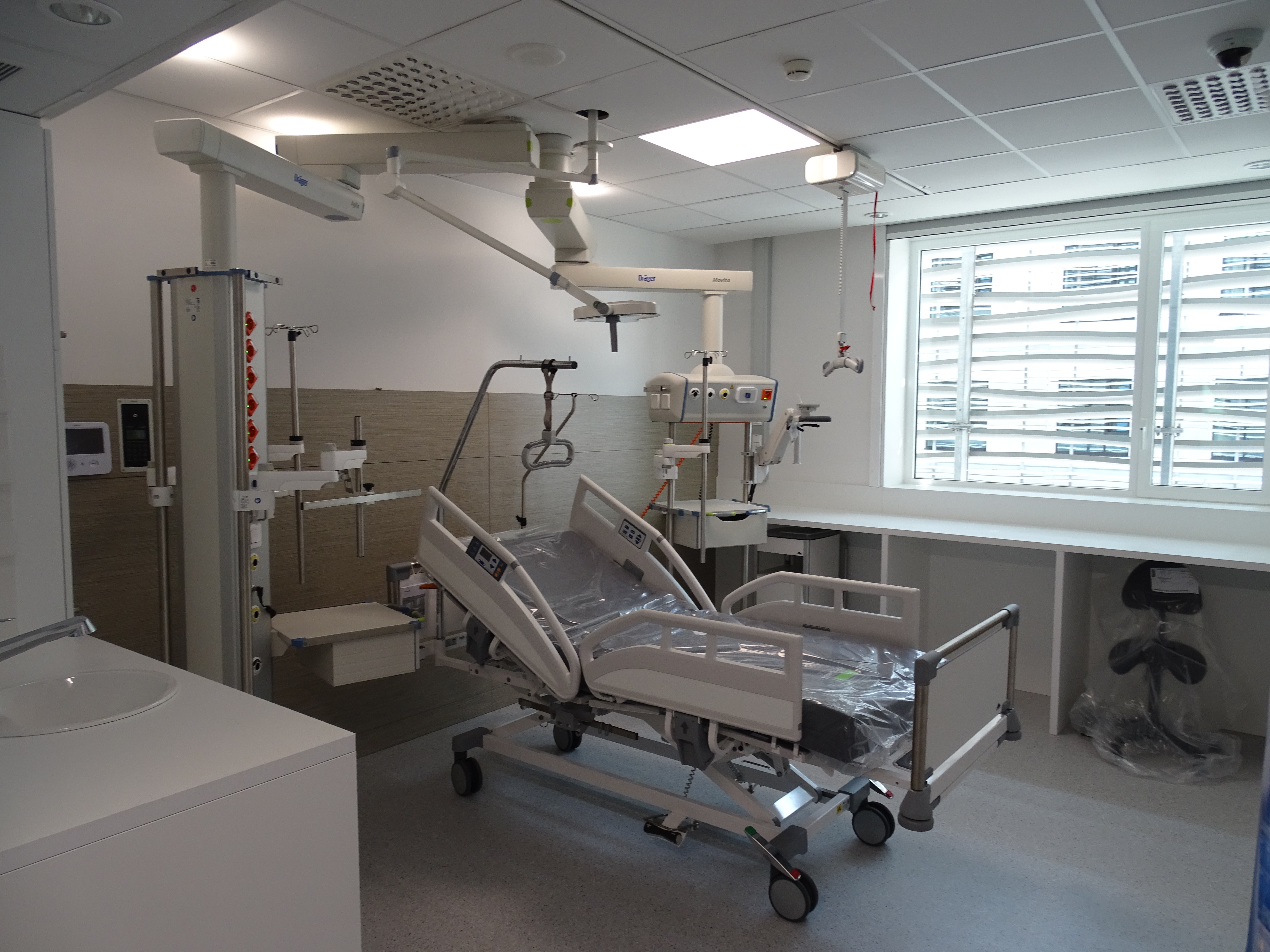 Intensive care unit in Algemeen ziekenhuis St-Maarten (Saint Martin's General Hospital) at Mechelen, Flanders, Belgium.